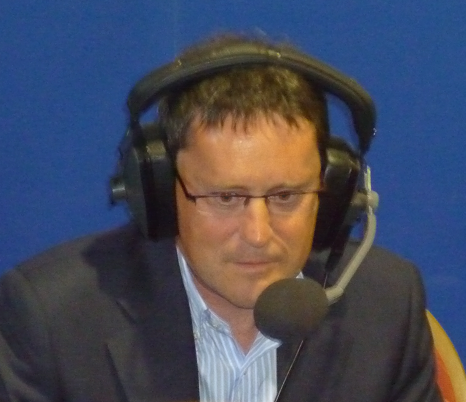 My photograph, taken at the by-election count in the RDS in June 2009. He was being interviewed by Sean O'Rourke on RTE Radio 1 live from the count when the picture was being, hence the headset. FearÉIREANN\(caint) 22:00, 7 July 2009 (UTC)